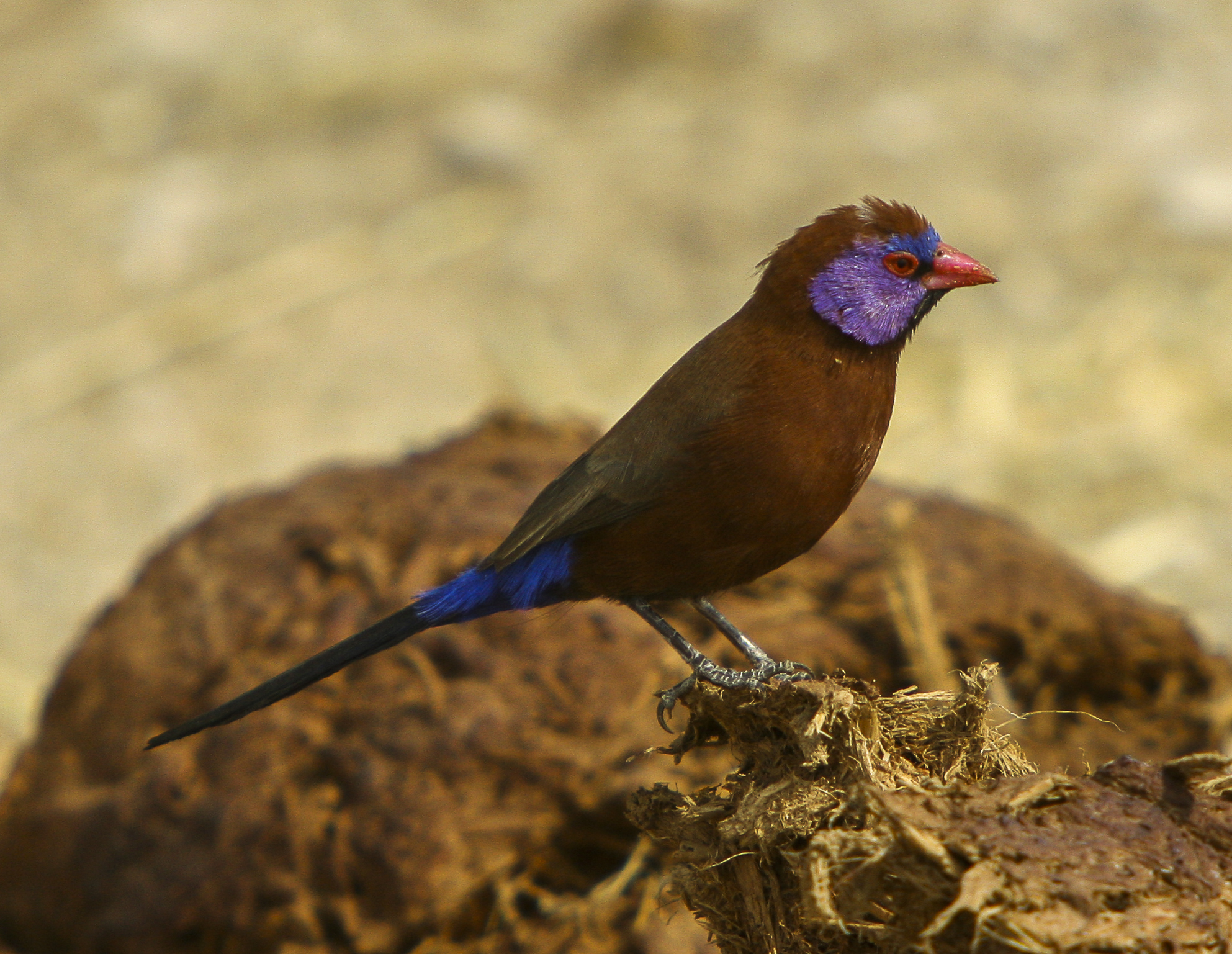 Violet-eared Waxbill - Etosha - Namibia_ 0011